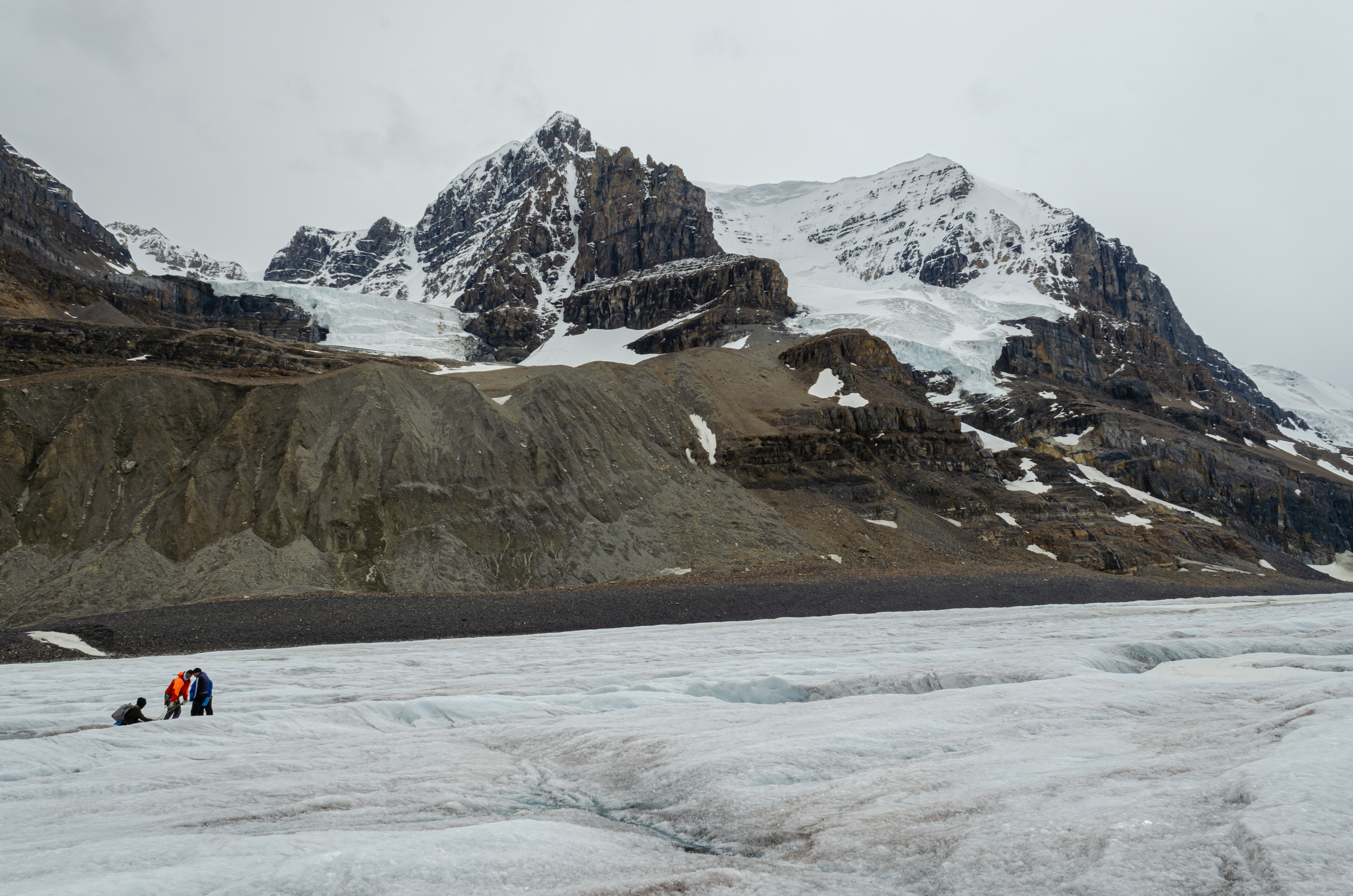 Mount Andromeda from the Athabasca Glacier, geologists studying the glacier are on the left.